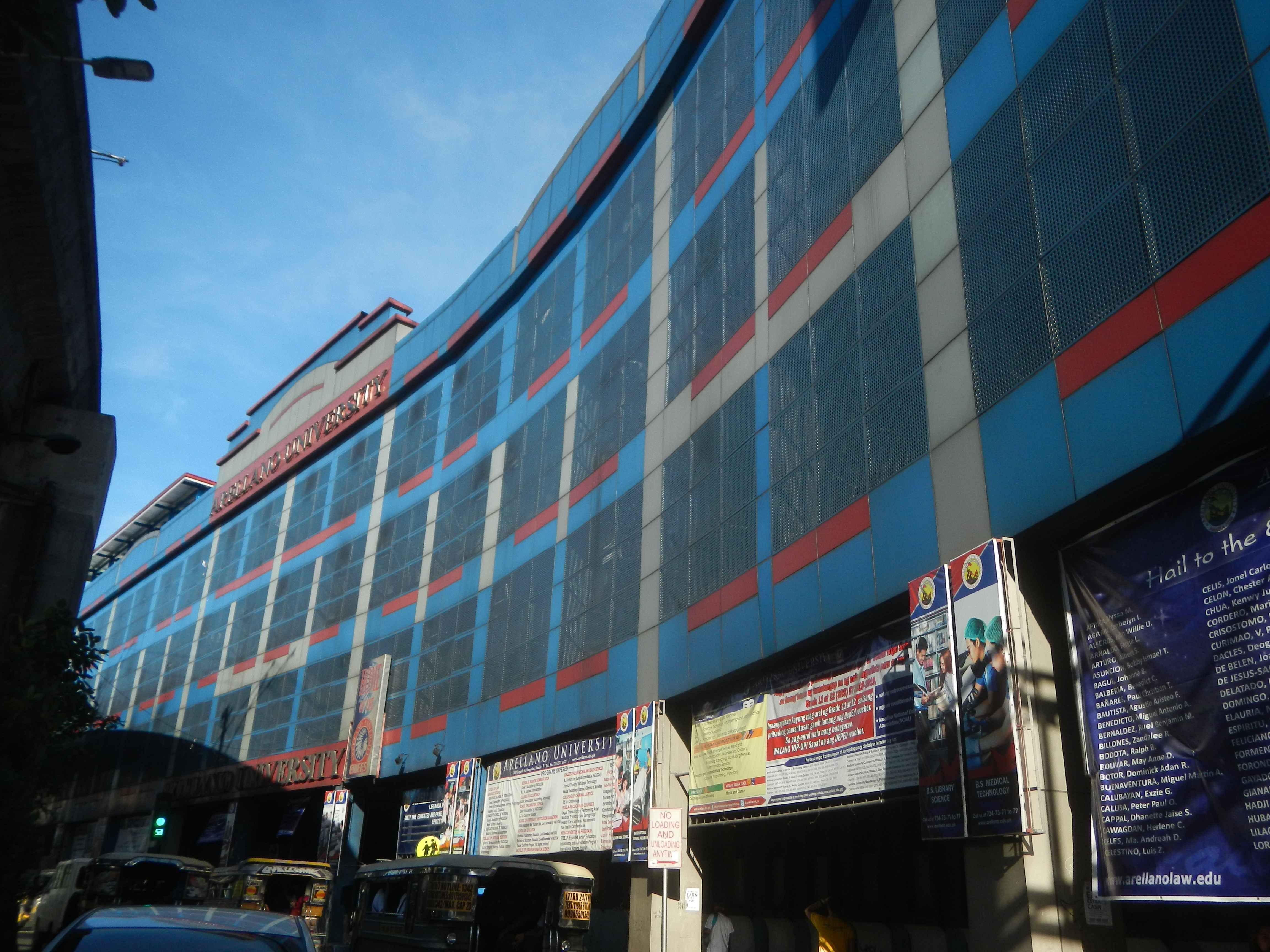 J. P. Laurel Bridges I, II & III - Estero de Sampaloc, Estero de San Miguel and Estero Uli-Uli (Jose P. Laurel Street, San Miguel, Manila) Santa Catalina College Legarda Street List of universities and colleges in the Philippines Arellano University (Legarda Street, Sampaloc, Manila) Arellano University International Business College - AMA Education System (Legarda Street, Sampaloc, Manila) Barangays 401, 402 & 403, Zone 41, 404,405, 406, 407, 409, 410, 411, 412, 413, 416, Zone 42, District IV, Sampaloc, Manila Sampaloc, Manila Jose Laurel Street (Note: Judge Florentino Floro, the owner, to repeat, Donor Florentino Floro of all these photos hereby donate gratuitously, freely and unconditionally all these photos to and for Wikimedia Commons, exclusively, for public use of the public domain, and again without any condition whatsoever).